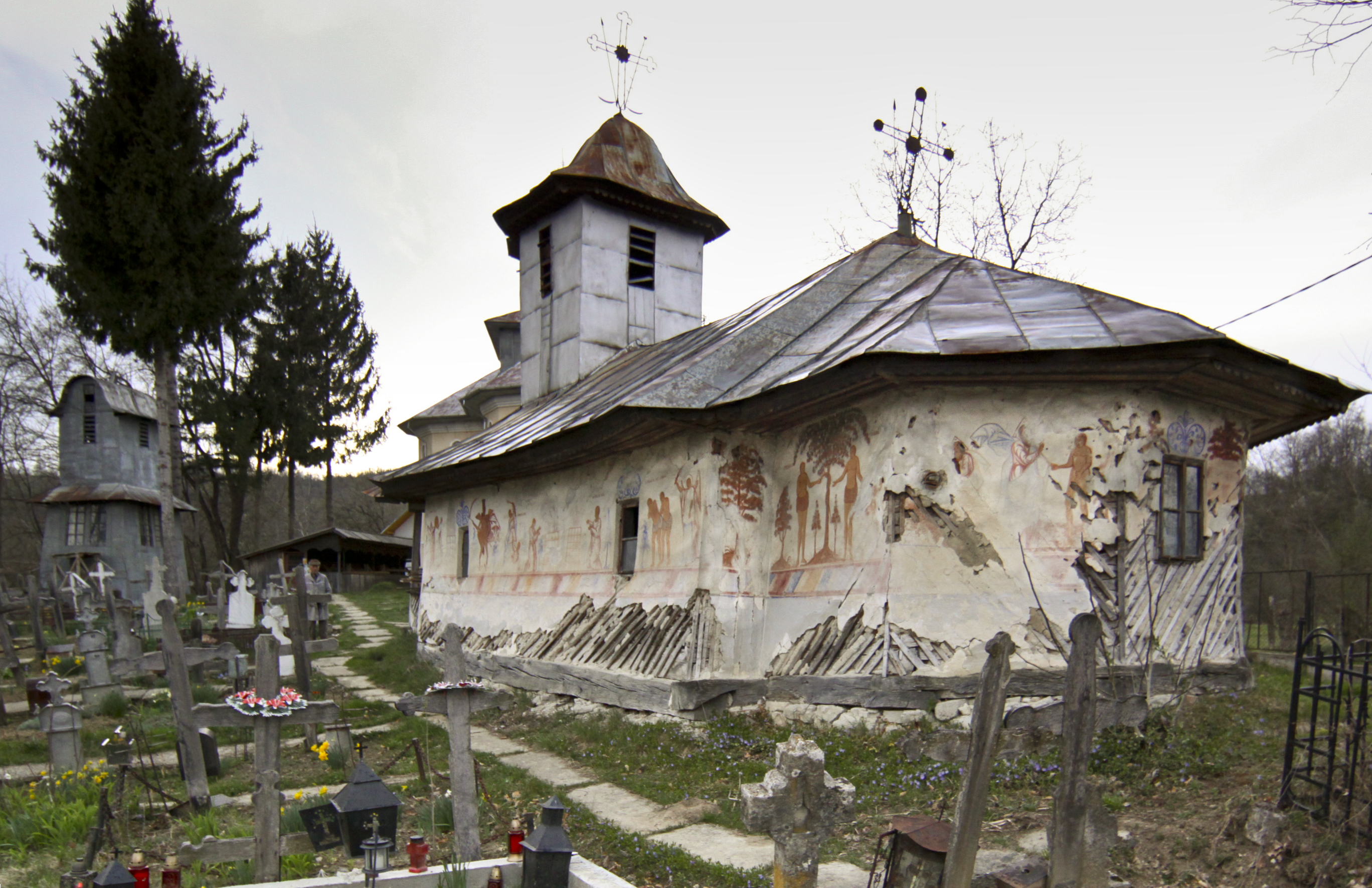 Borovineşti, Argeş county, Romania: the wooden church.